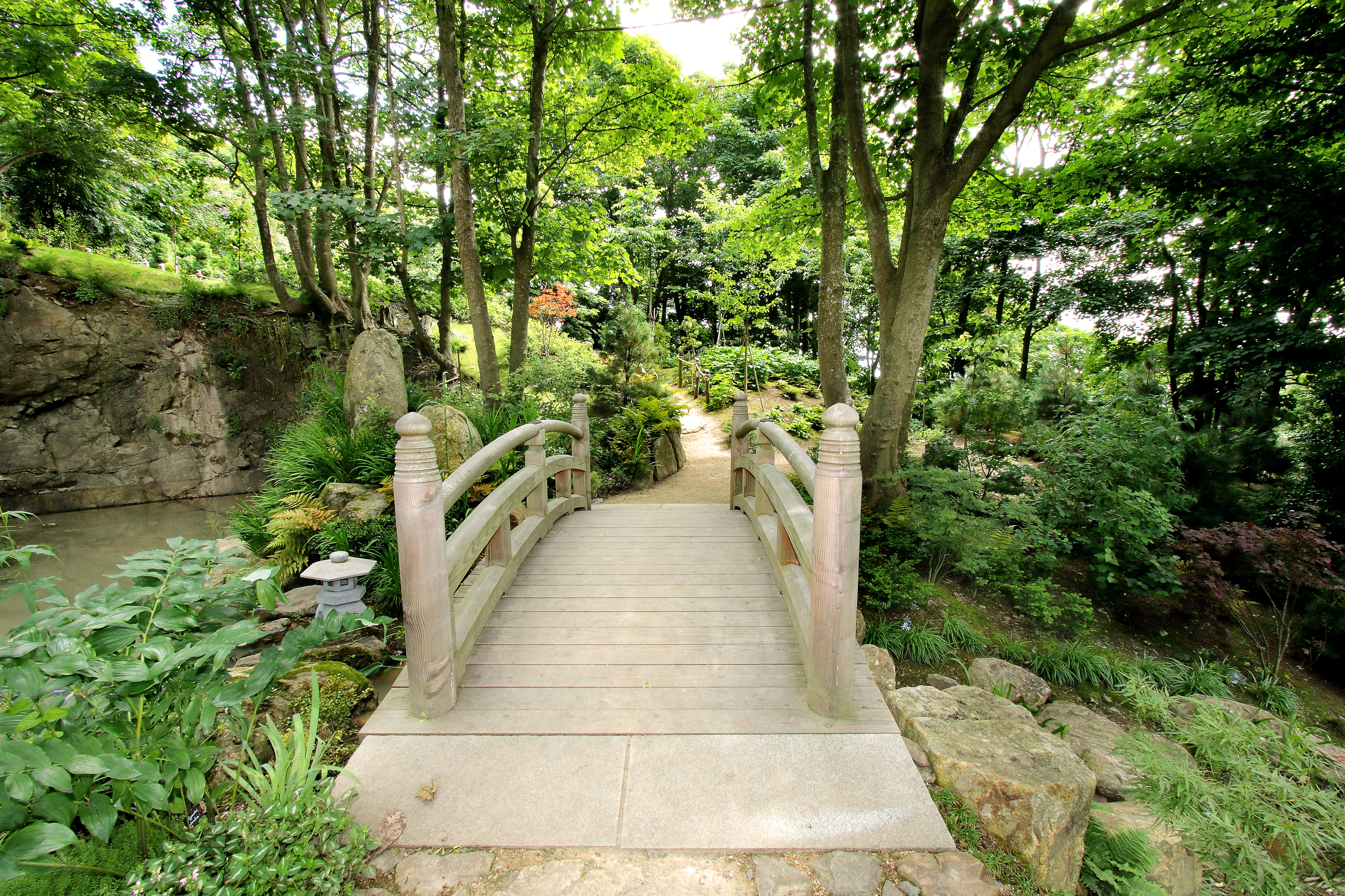 Lafcadio Hearn Japanese Gardens Tramore